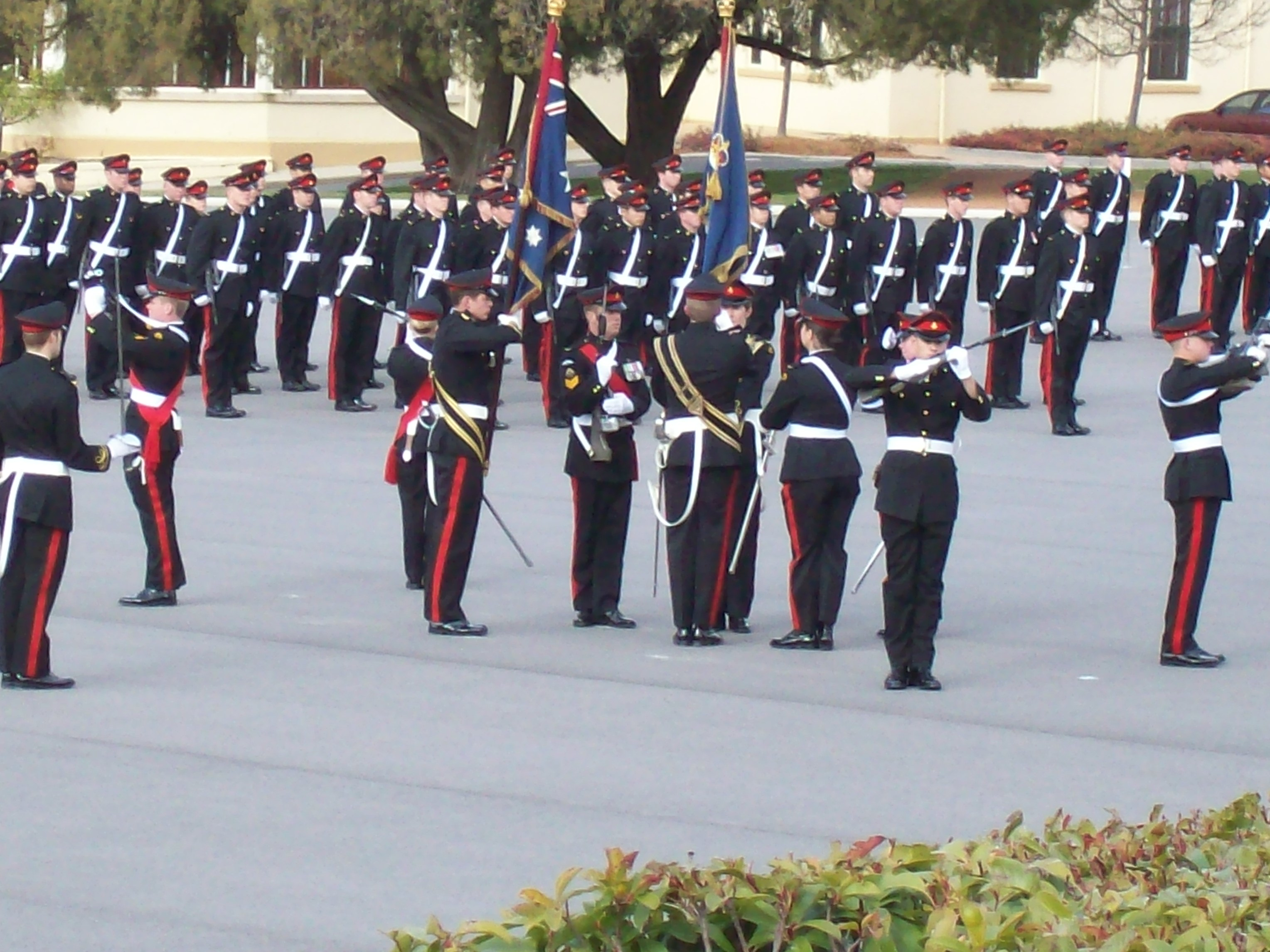 Graduation parade, Royal Military College - Duntroon, 24 June 2008